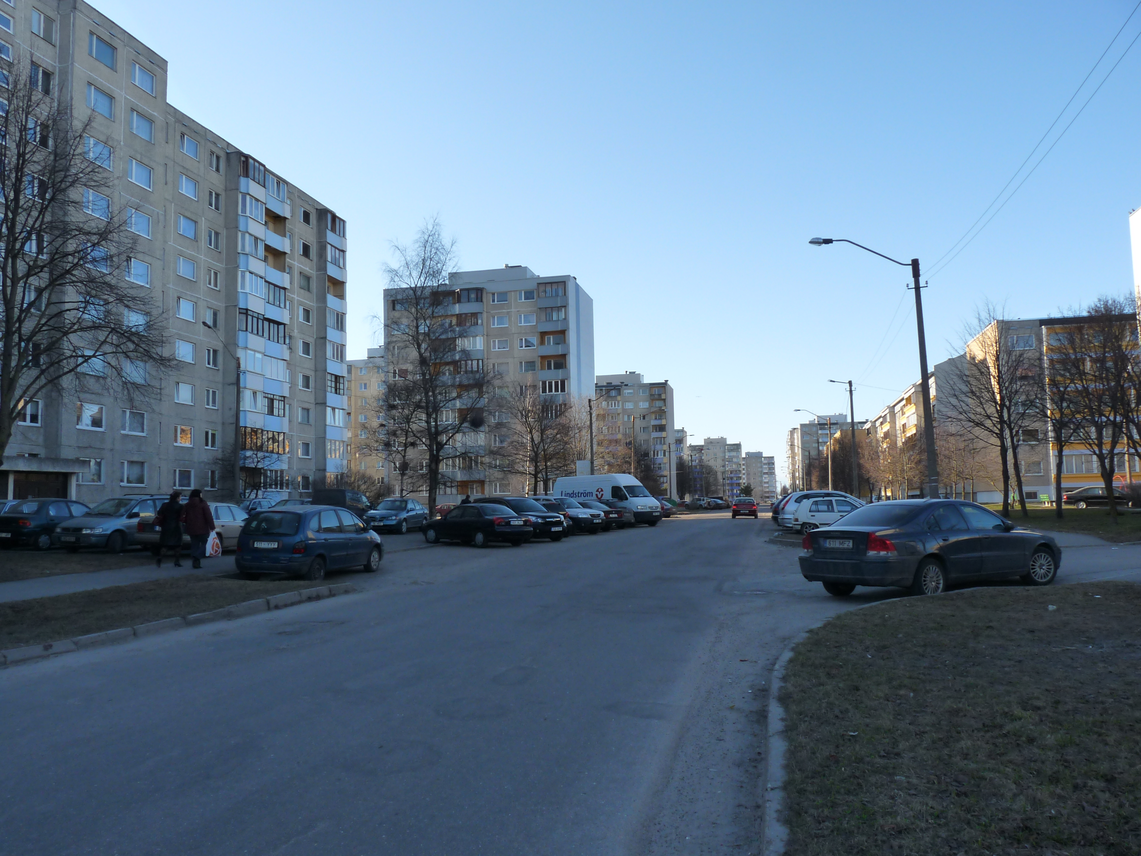 Pikri street in Tallinn